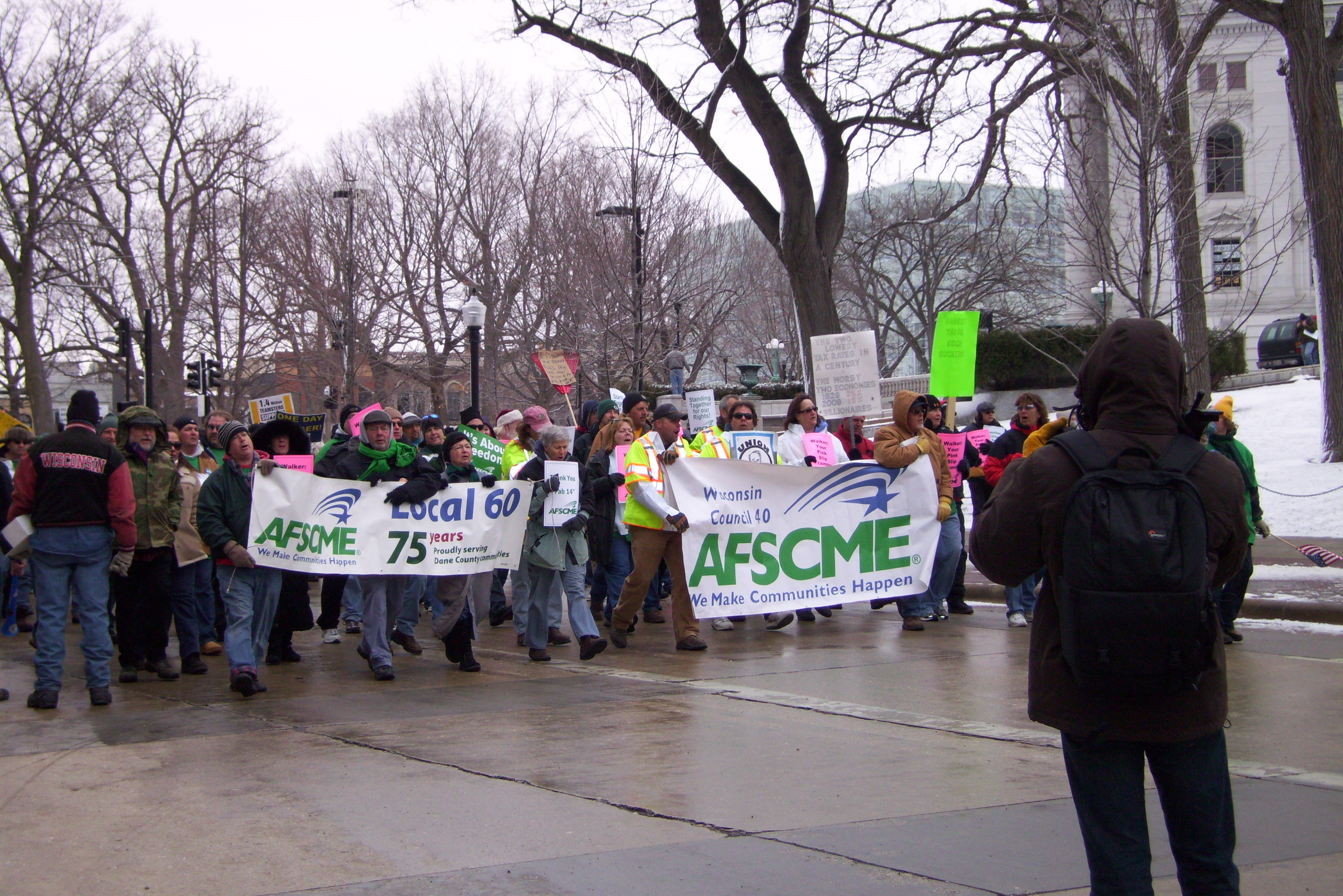 Protesters from the AFSCME march around the Wisconsin State Capitol, demonstrating against Governor Scott Walker's collective bargaining restriction on unions.